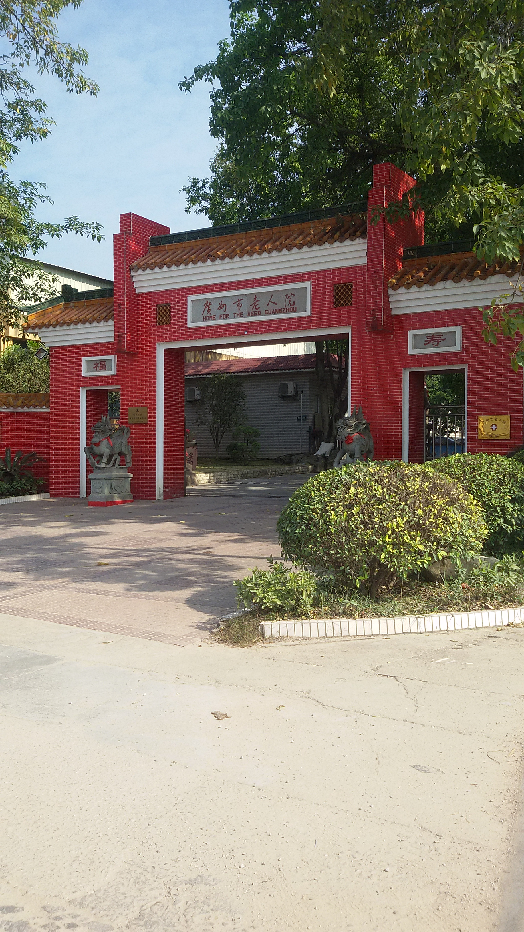 HOME FOR THE AGED GUANGZHOU 粵語: 廣州市老人院